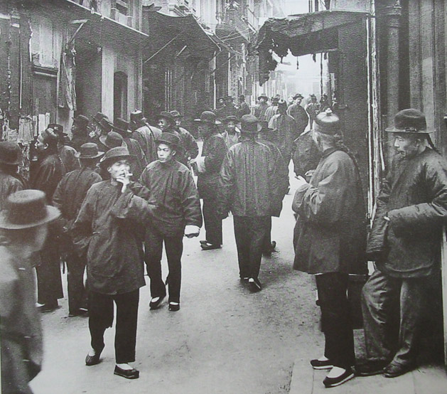 The Street of Gamblers (Ross Alley) Arnold Genthe, 1898 gelatin silver print 10 1/2 x 12 7/8 inches Fine Arts Museum of San Francisco Achenbach Foundation for Graphic Arts, purchase 1943 Chinatown, San Francisco at the turn of the twentieth century. The population is predominantly male because U.S. policies at the time made it difficult for Chinese women to enter the country. Public domain photo due to age. Photo credit: Arnold Genthe